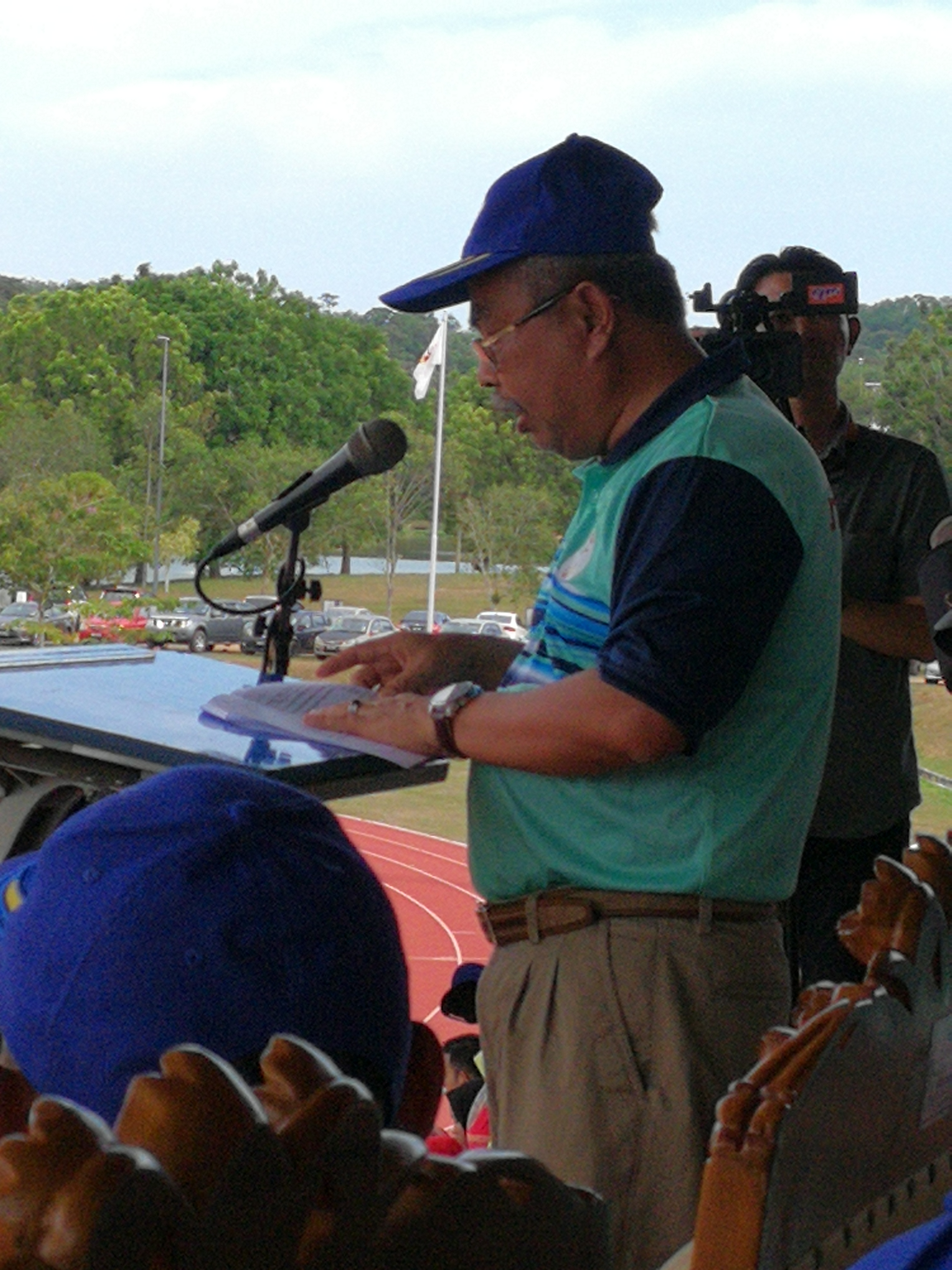 Ucapan Aluan YBhg Dato' Indera Sr Mohd Noor bin Isa, Ketua Pengarah Ukur dan Pemetaan Malaysia